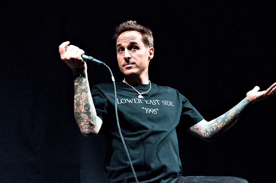 Toby Morse, singer of H2O